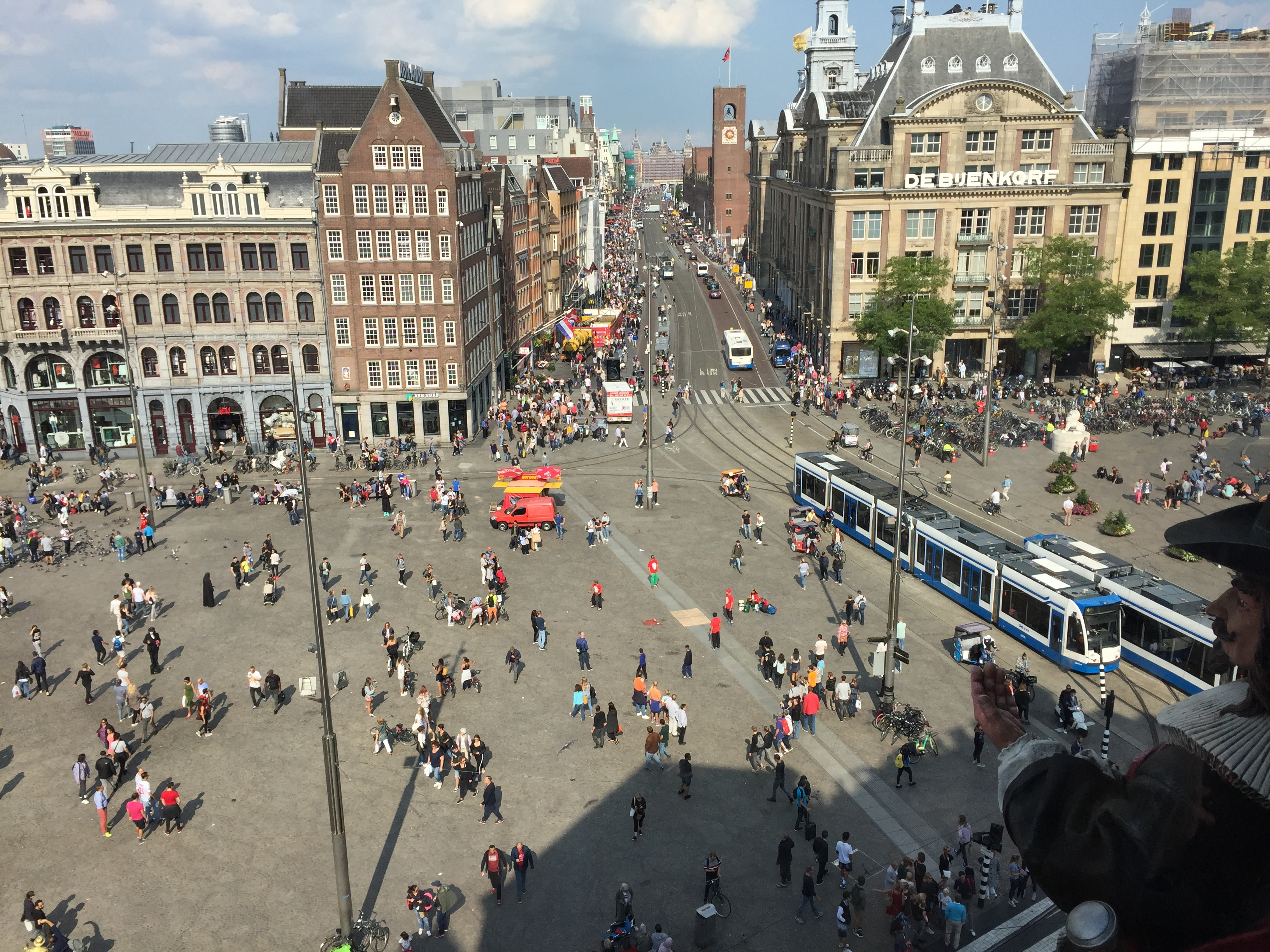 A picture of the street from Dam Square towards the train station